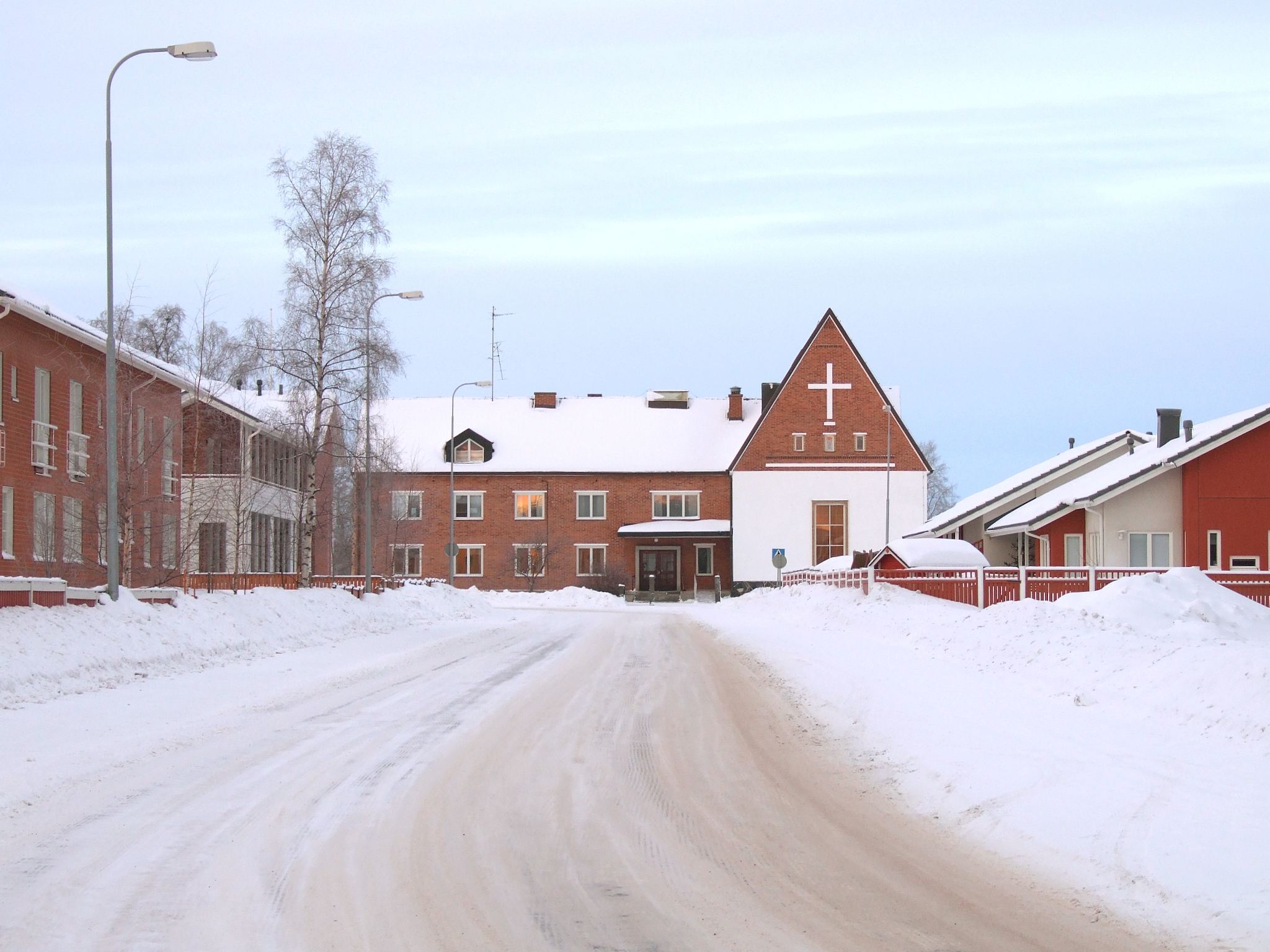 Hintantie street in Hintta, Oulu, Finland. The building at the end of the street is Hintta parish centre (built 1955). Weather: −10 °C.